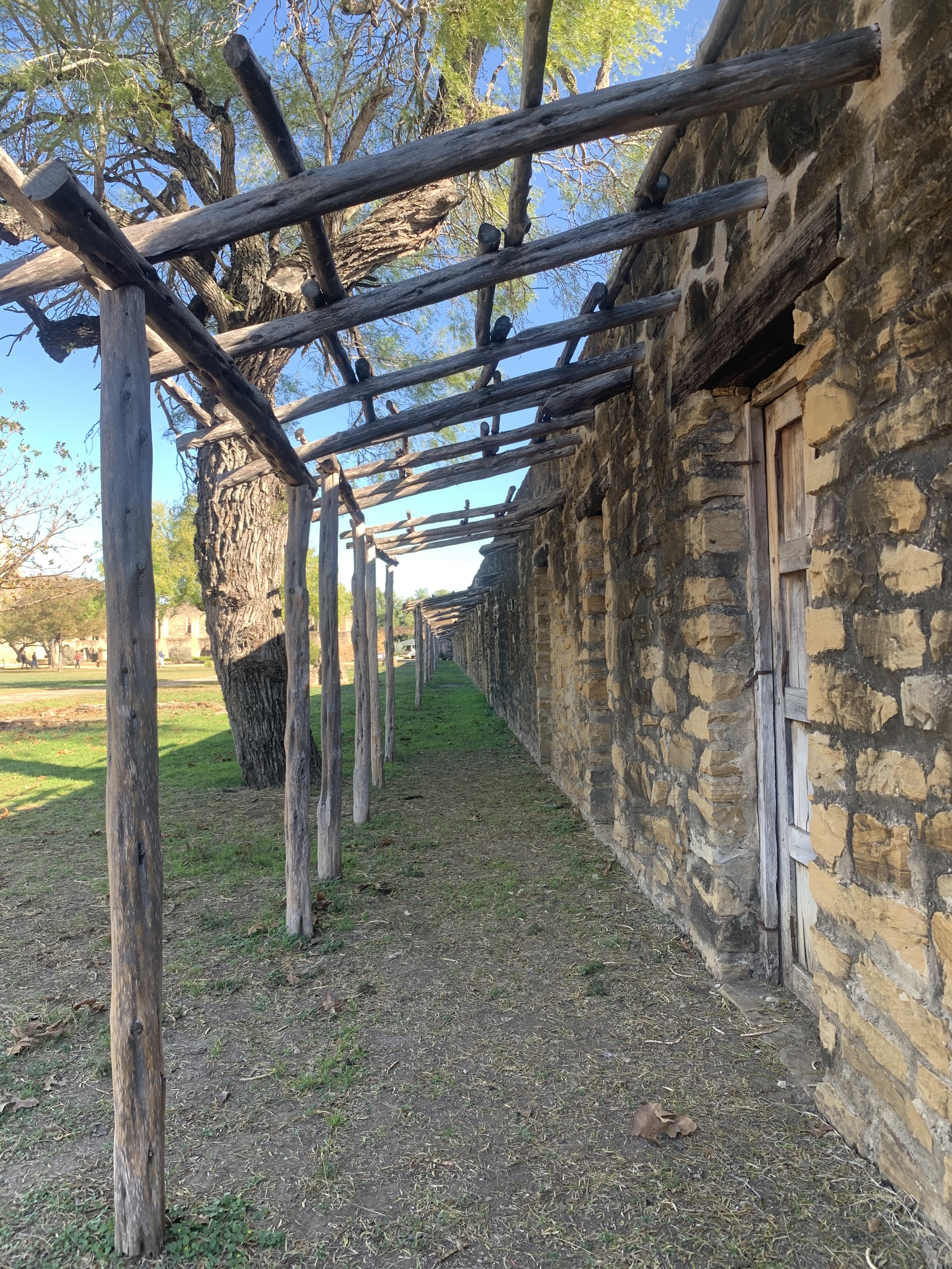 The Indian Quarters in Mission San Jose shows the living conditions of the Native Americans who lived inside the Spanish Missions.